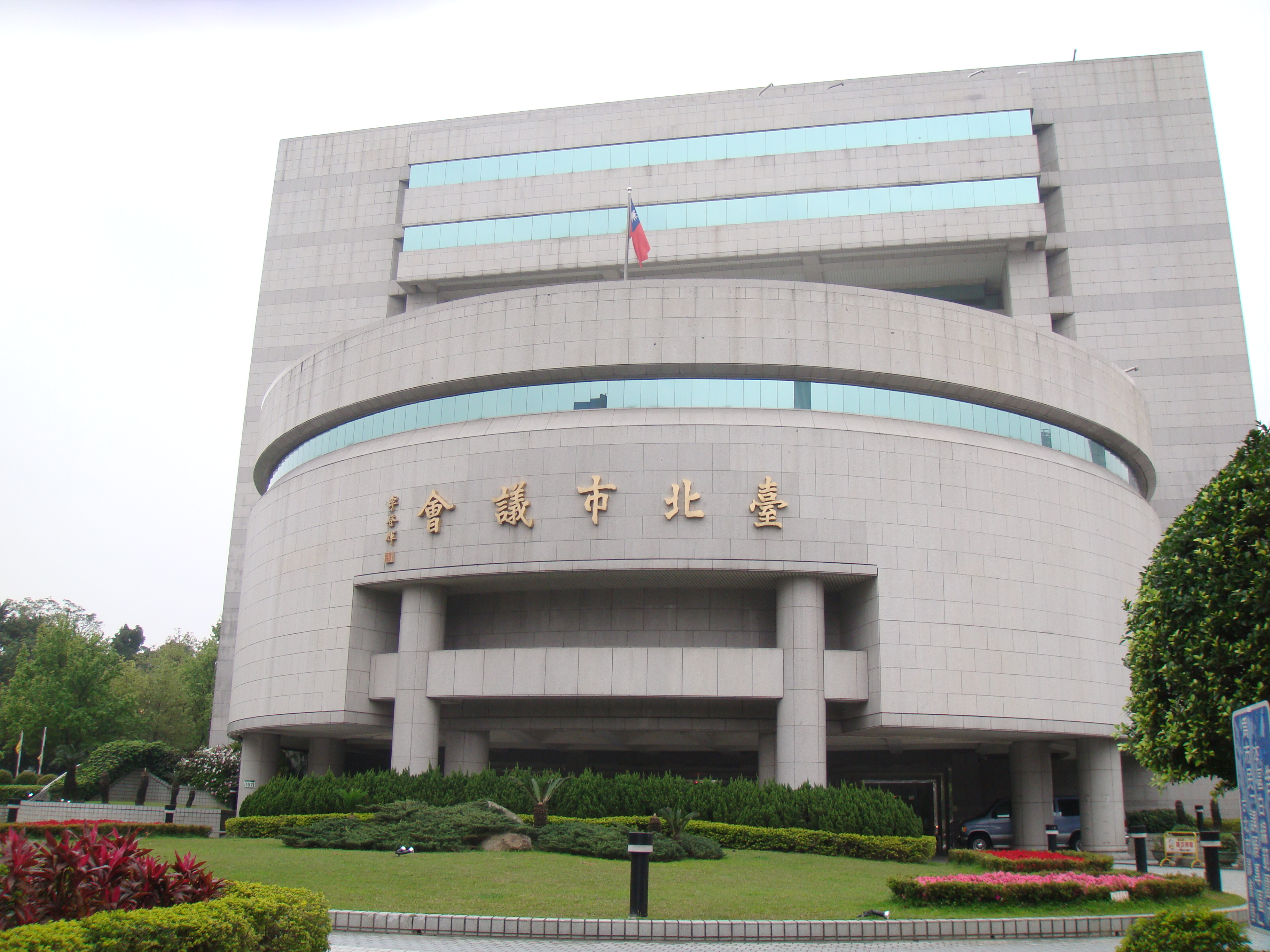 Taipei City Council Hall front view.